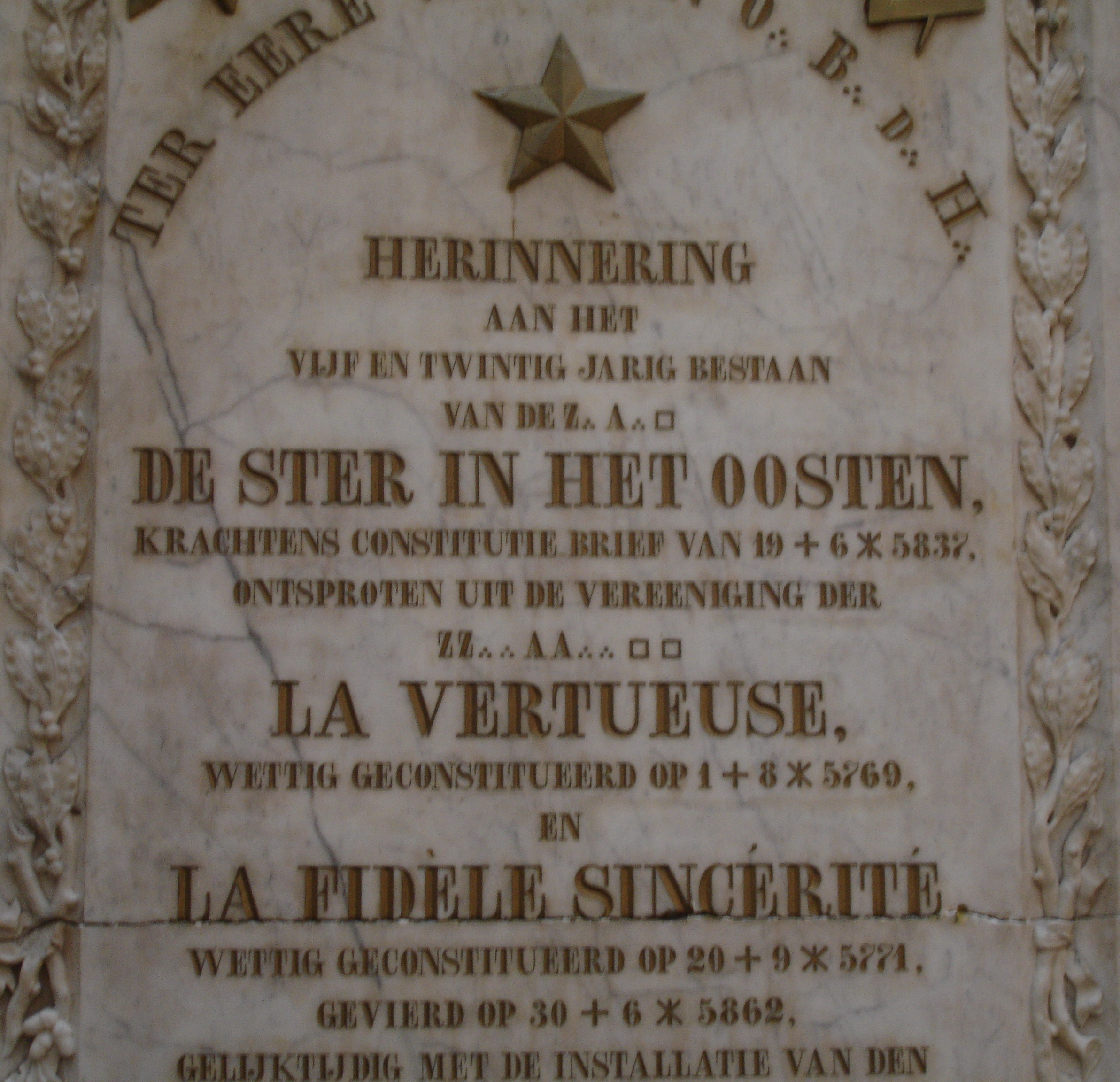 Masonic memorial with examples of the masonic calendar